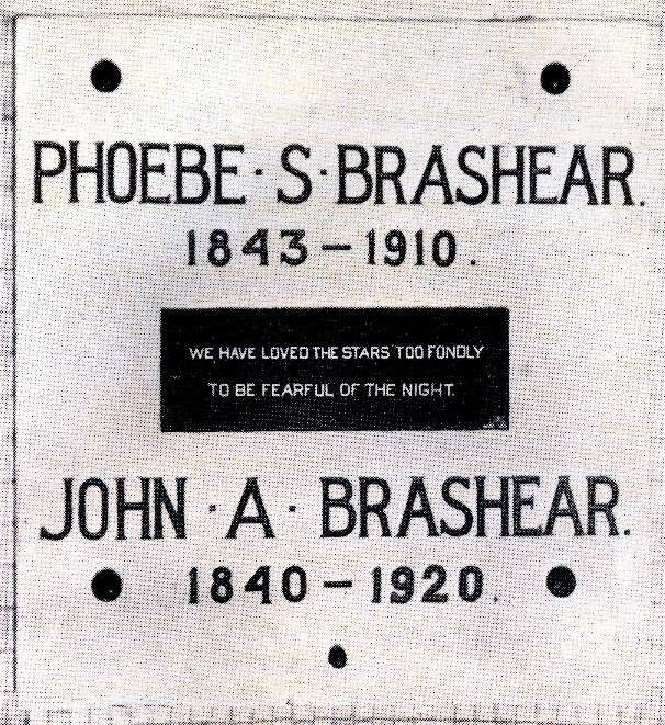 Picture from the autobiography of John Brashear, the scientific instrument maker. The photograph is of a plate mounted in the crypt of the New Allegheny Observatory in Pittsburgh, Pennsylvania.